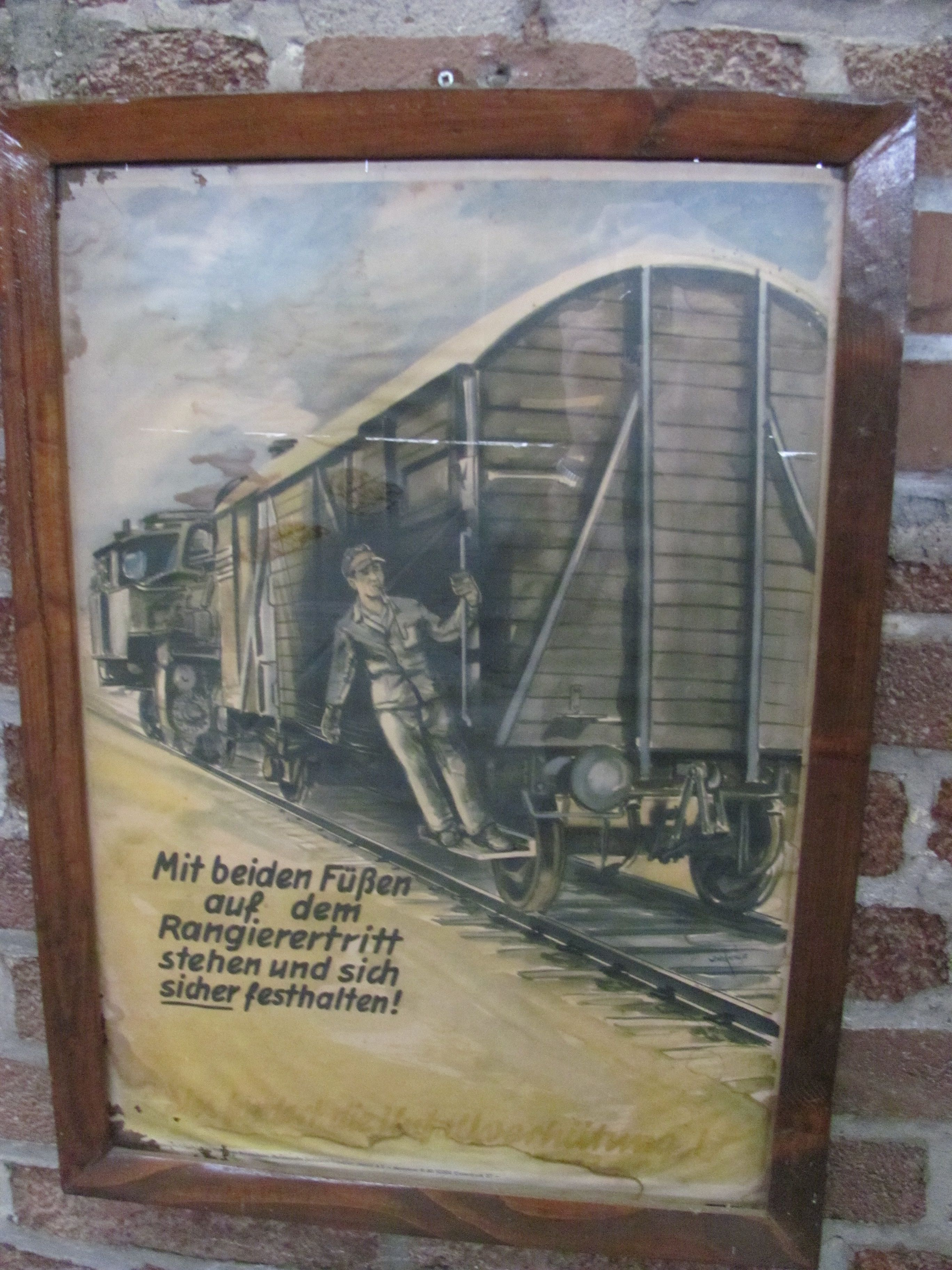 security announcement for shunters